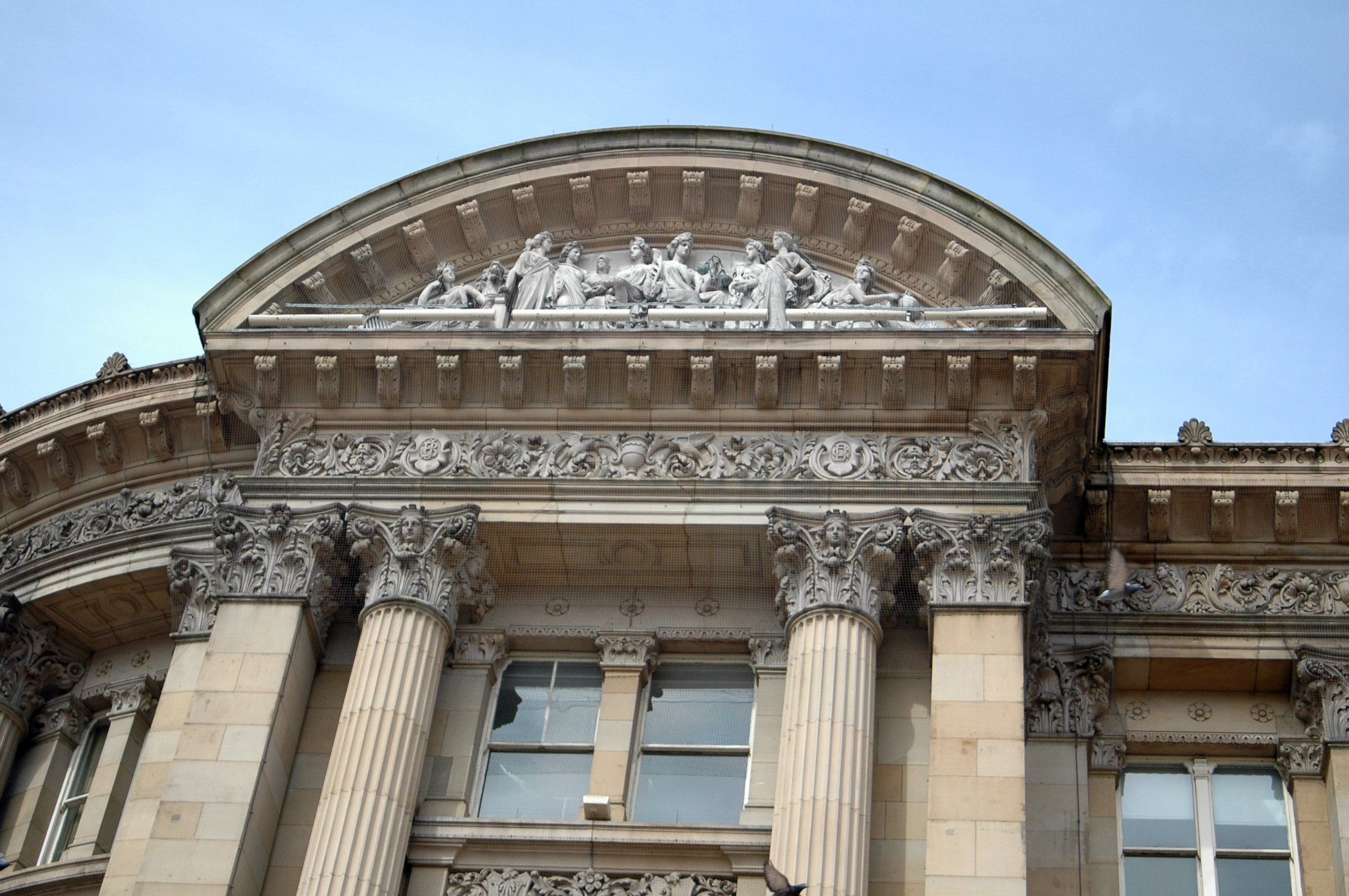 This is a close up of the detailing on the Council House in Birmingham.